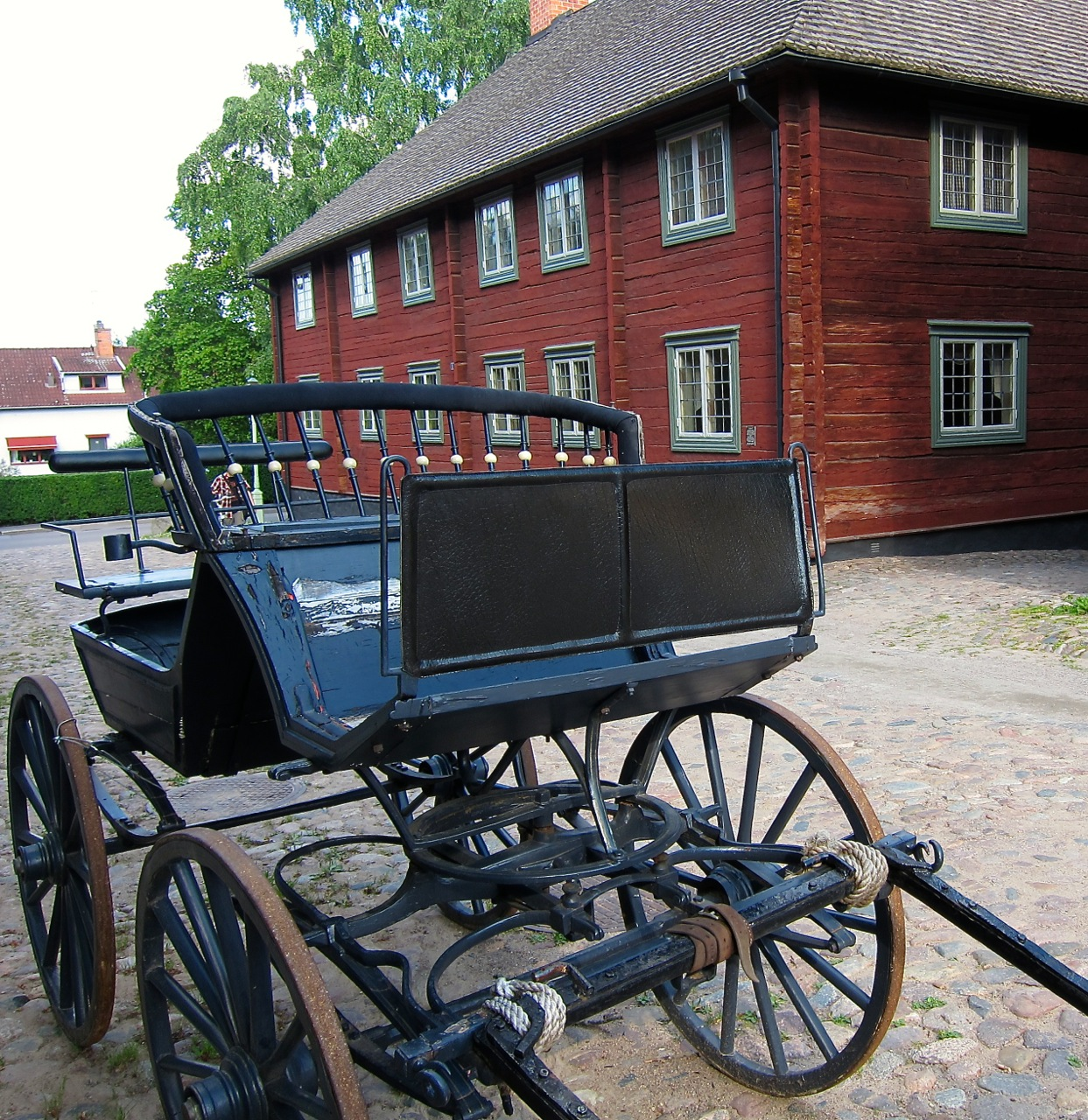 Coache in Sweden